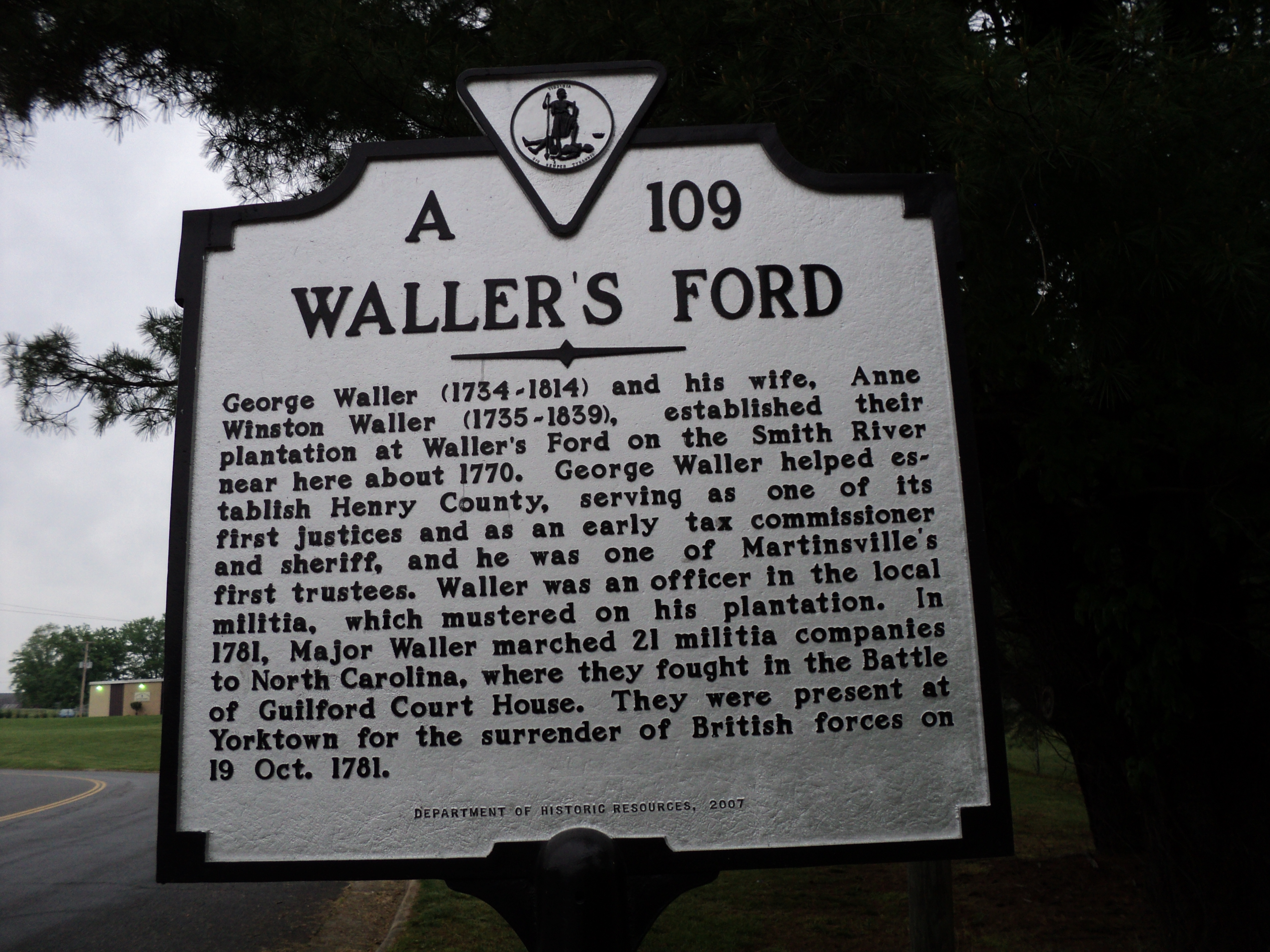 Virginia state historic market for "Waller's Ford," Henry County, Virginia, founded by Col. George Waller of the Revolutionary Army. The community was known as Waller's Ford until the beginning of the 20th century when it was renamed Fieldale, in honor of Marshall Field's textile plant subsequently located there.